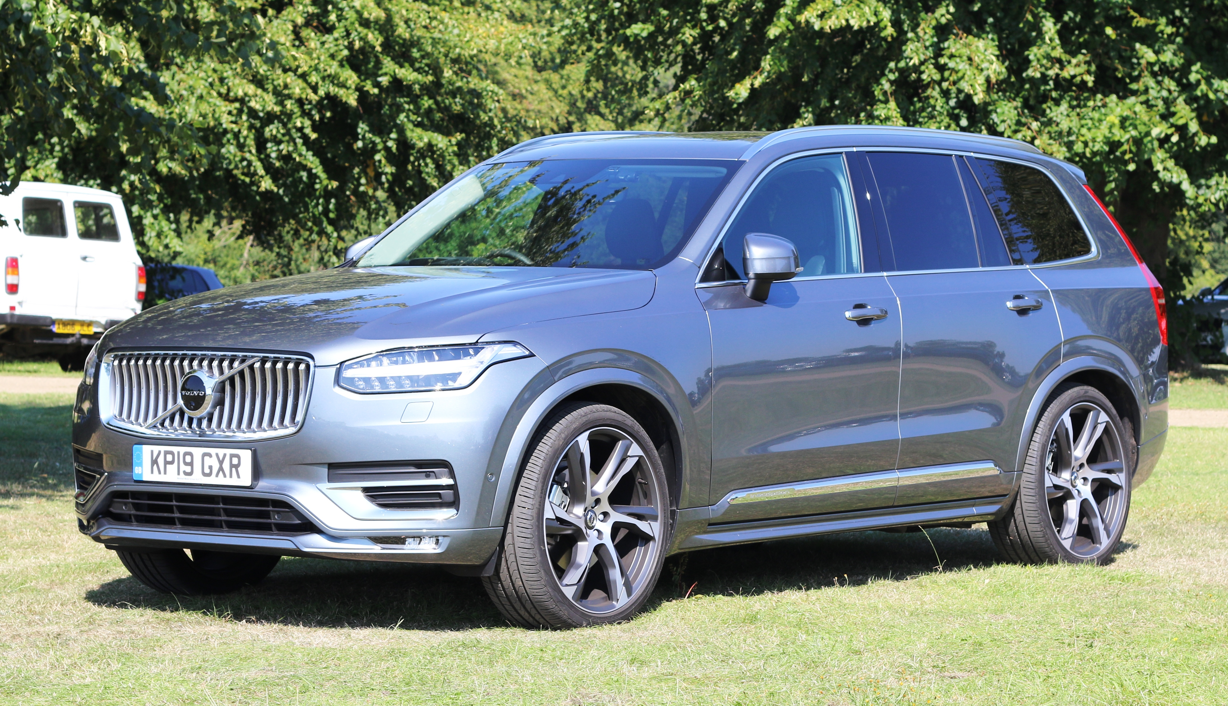 Volvo XC90 registered July 2019 1969cc